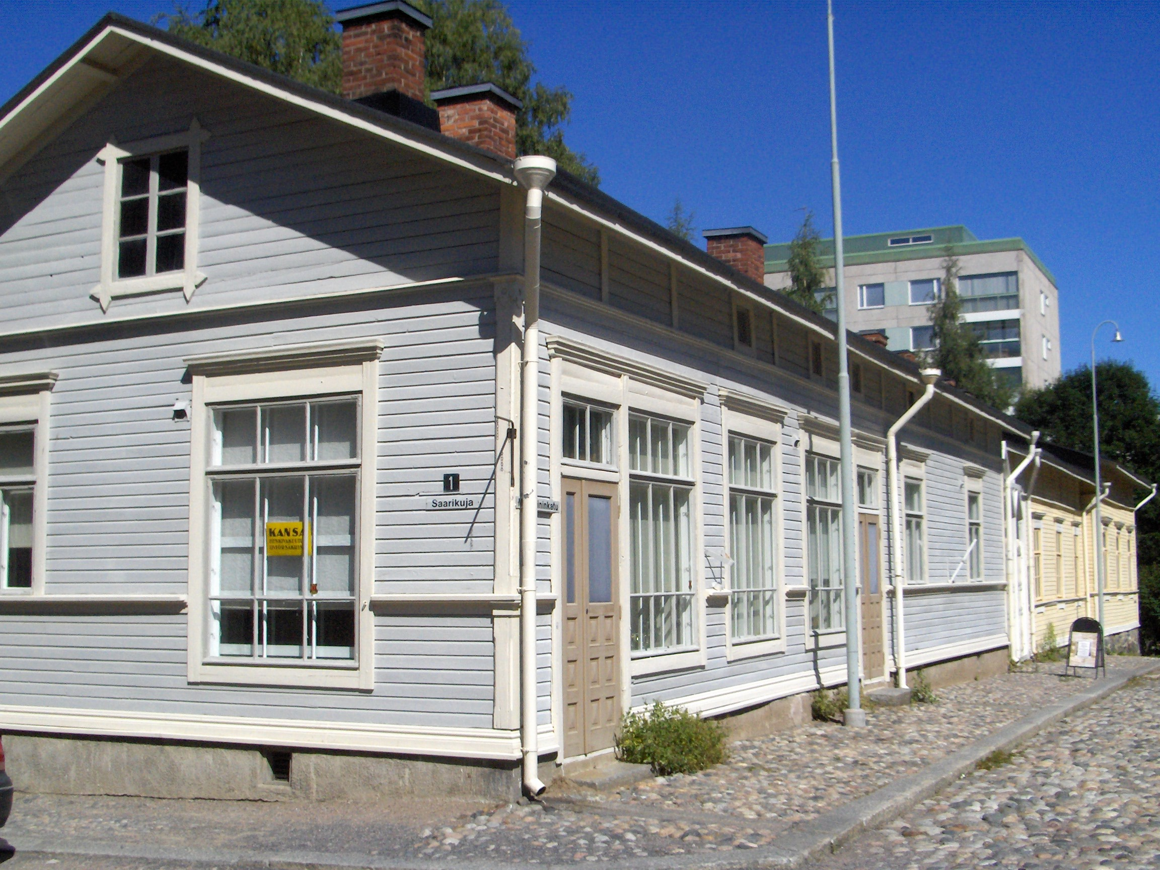 Amuri museum of workers housing’ in Tampere, Finland.